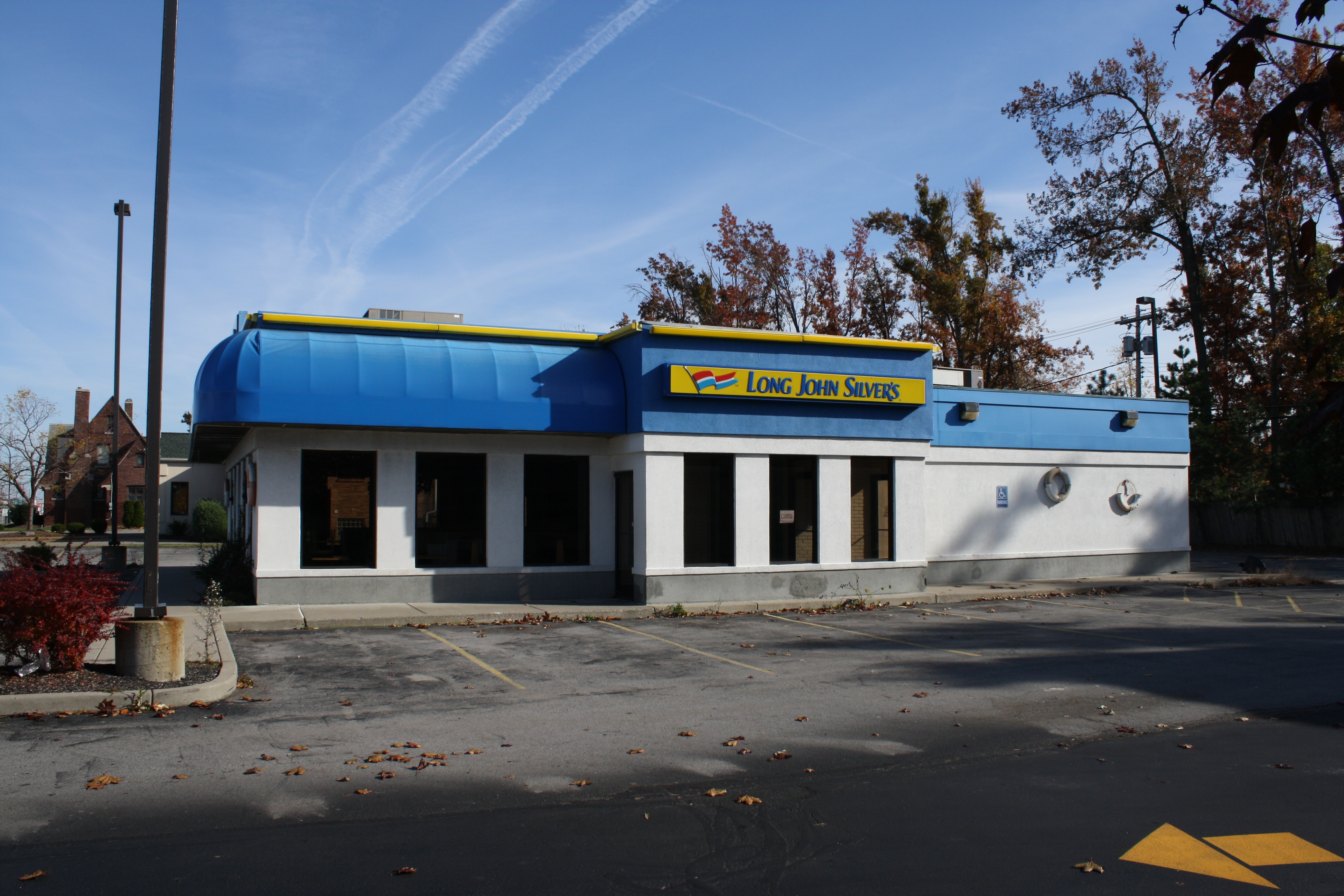 Closed Long John Silvers restaurant in Amherst, NY